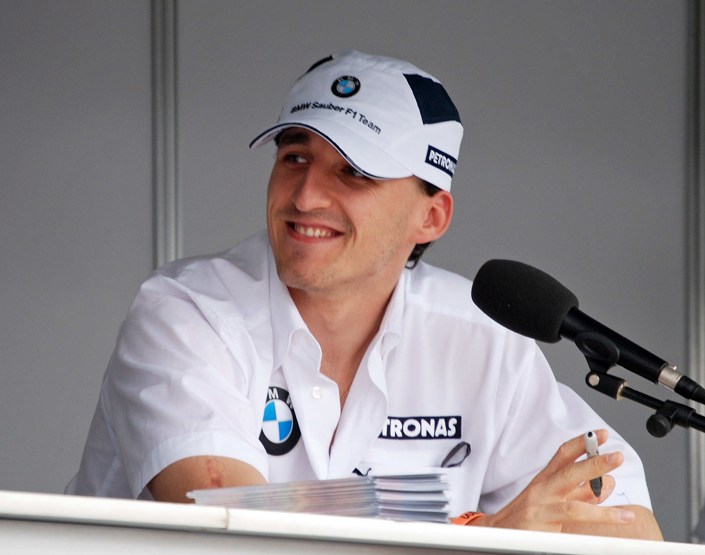 Robert Kubica at the 2009 Australian Grand Prix.